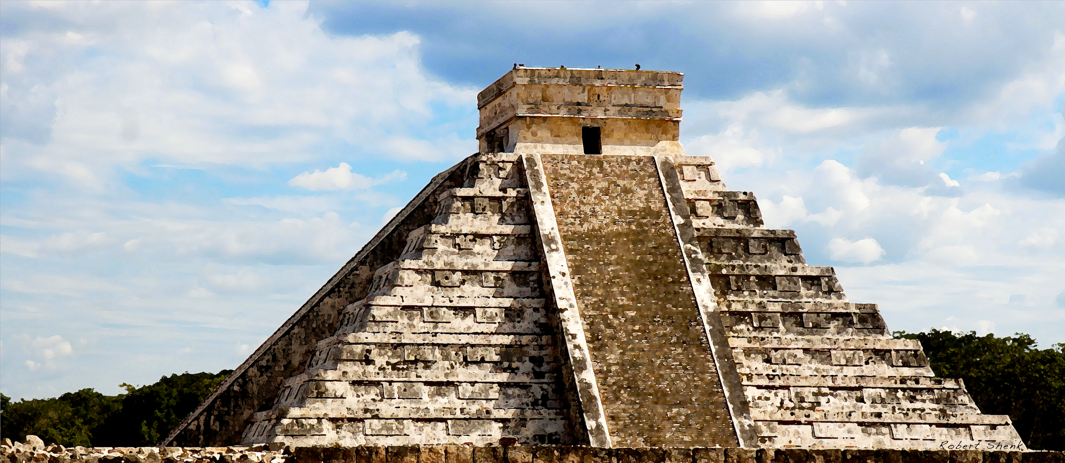 The Mayan Pyramid of Kulkucan Chichen Itza, Mexico